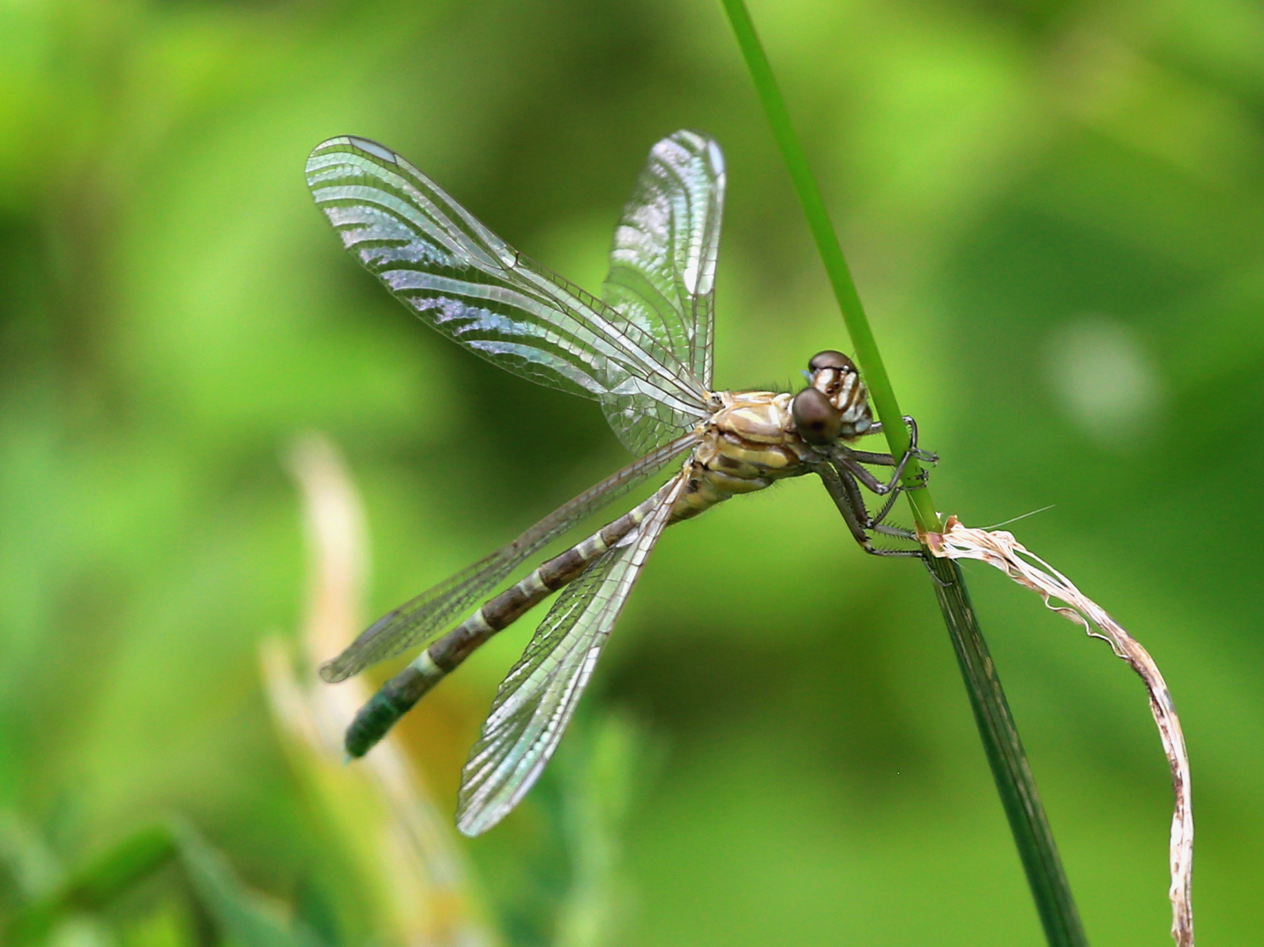 Zebra Vicetail teneral (Hemigomphus comitatus) newly emerged from larval stage, and yet to attain adult colouring. Photographed in Cairns, Queensland, Australia.